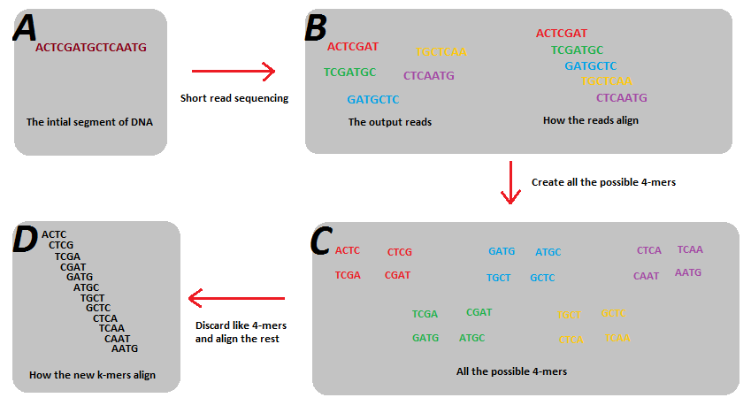 This shows a brief example of why you would want to split reads into smaller k-mers (for use with de bruijn graphs).